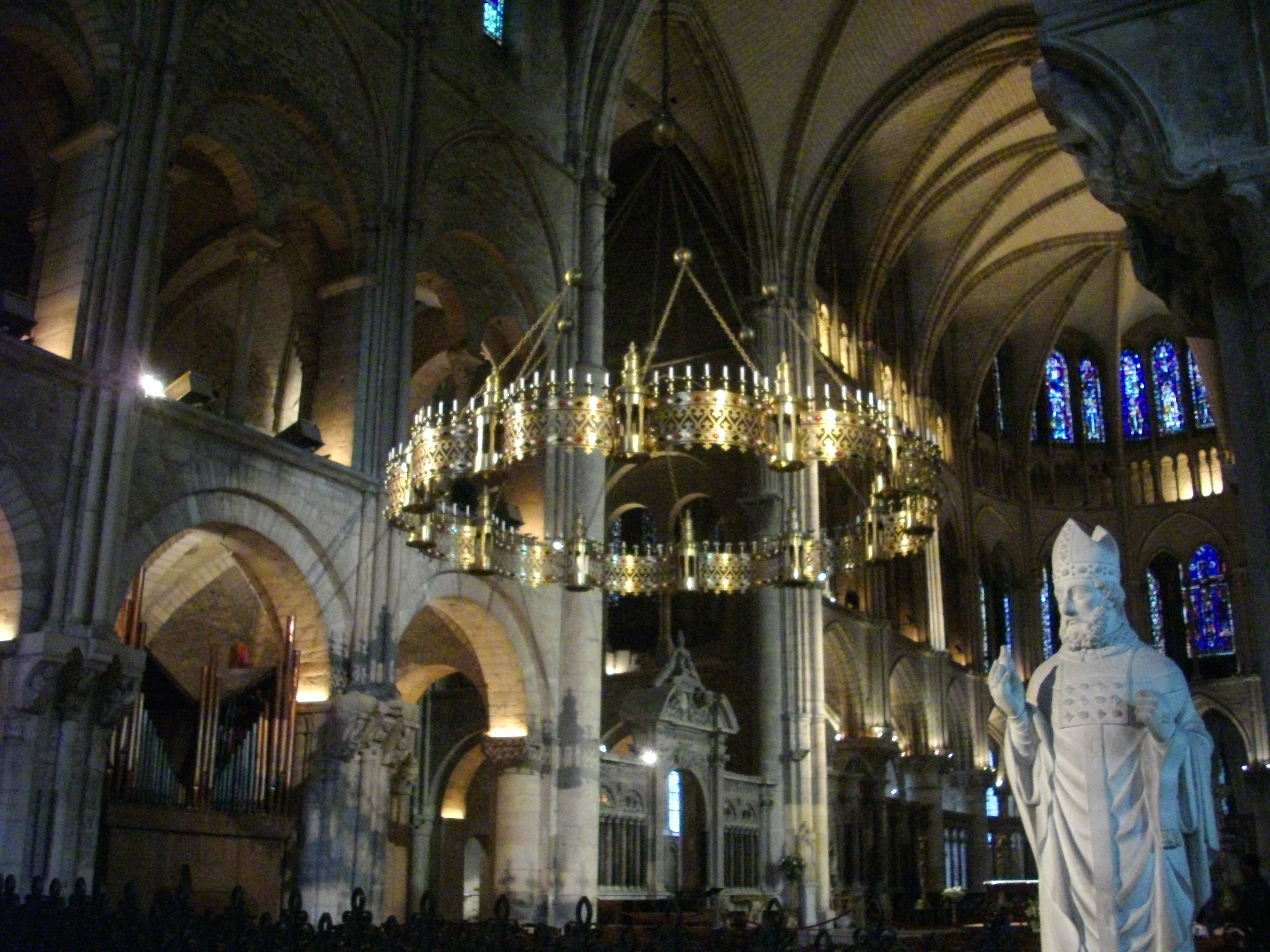 Saint Remigius basilic of Reims (Marne, France). False crown .